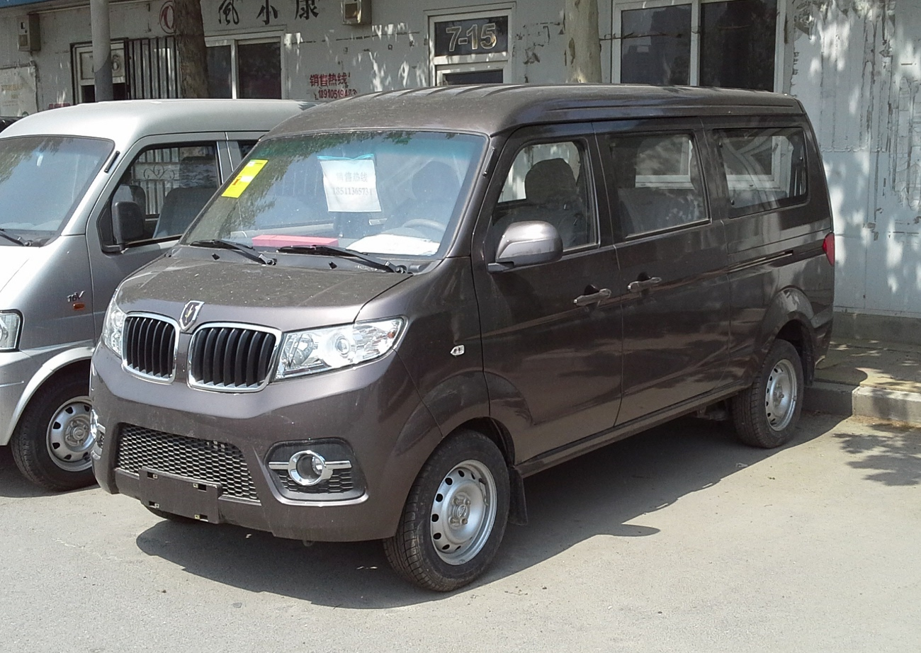 Jinbei Haixing X30 photographed in Beijing, China.